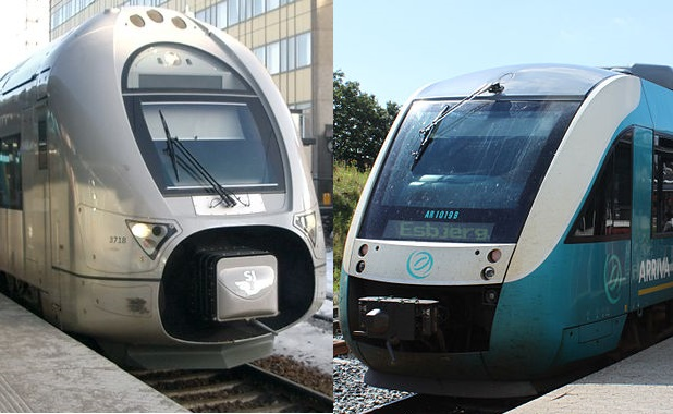 Dansk Tog Collage